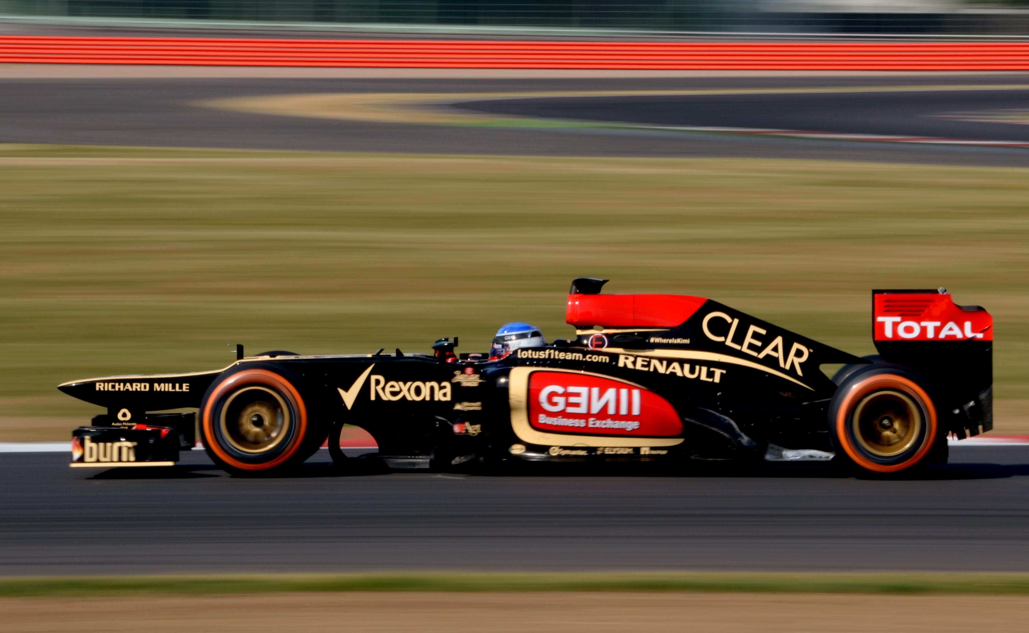 Nicolas Prost driving the Lotus E21 at the Young Drivers' Test at Silverstone.